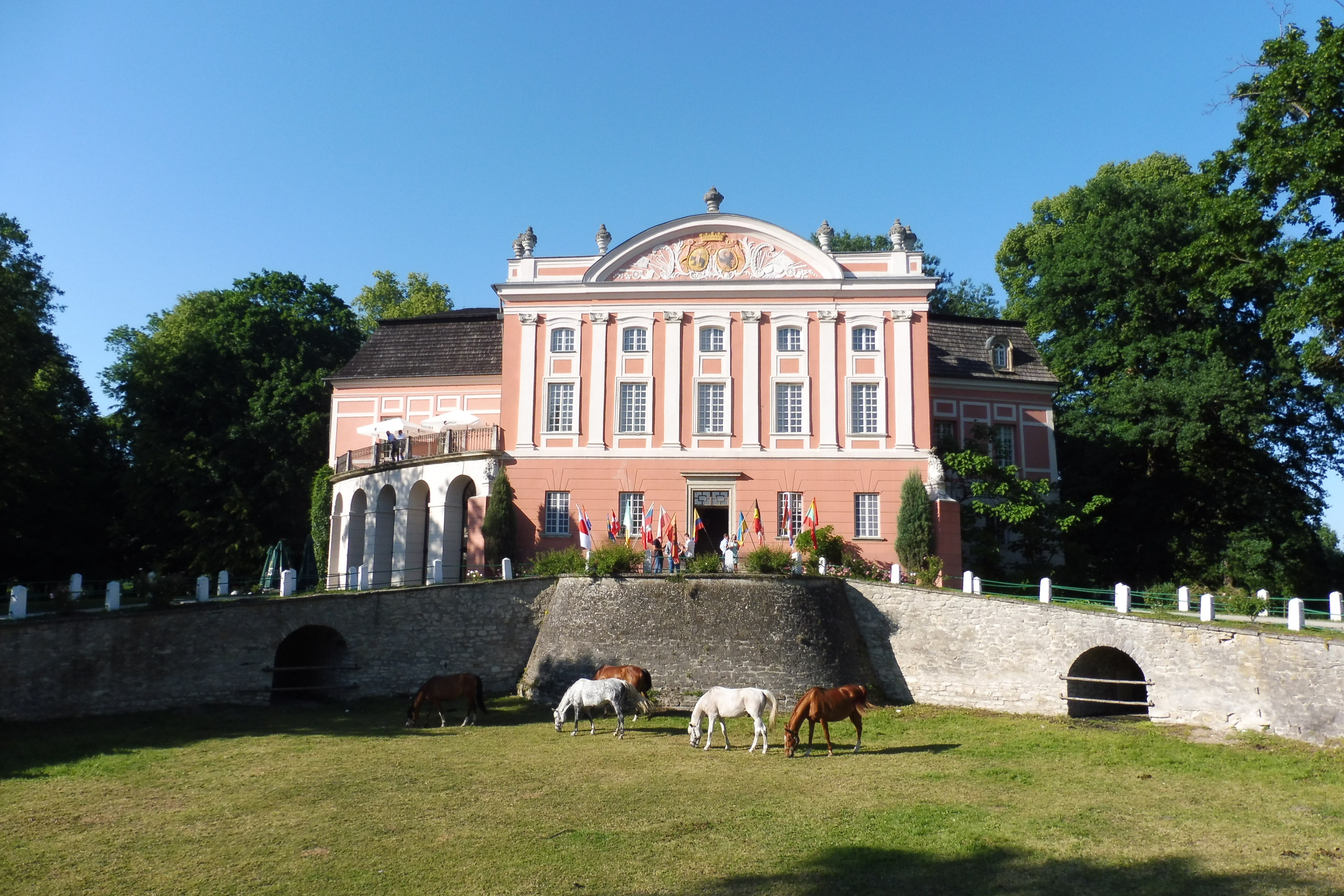 Kurozwęki Castle